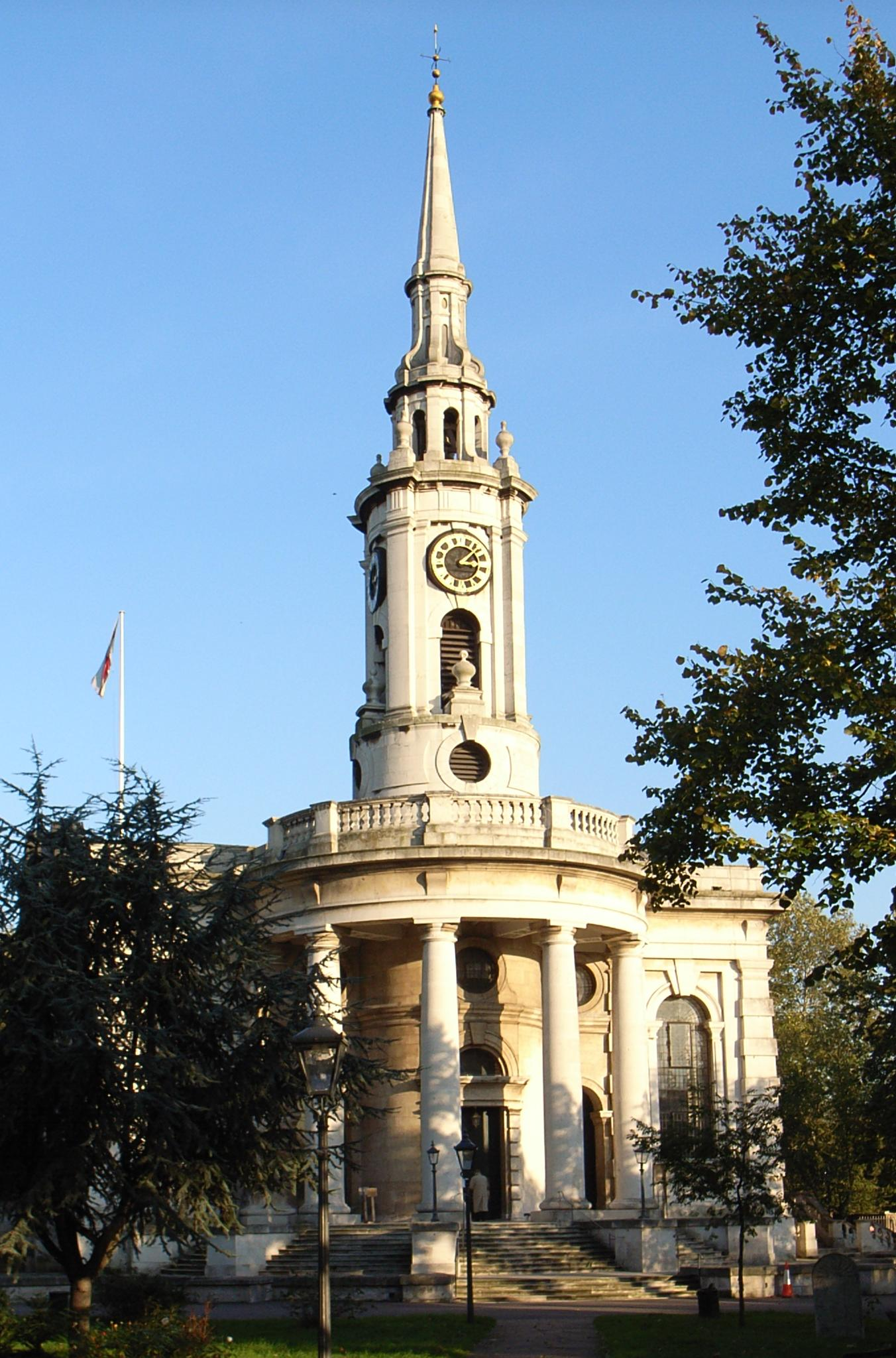 St. Paul's Church in Deptford, London, EnglandSt Paul, Deptford